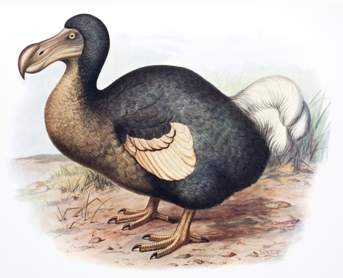 Didus cucullatus from Rothschild's Extinct birds